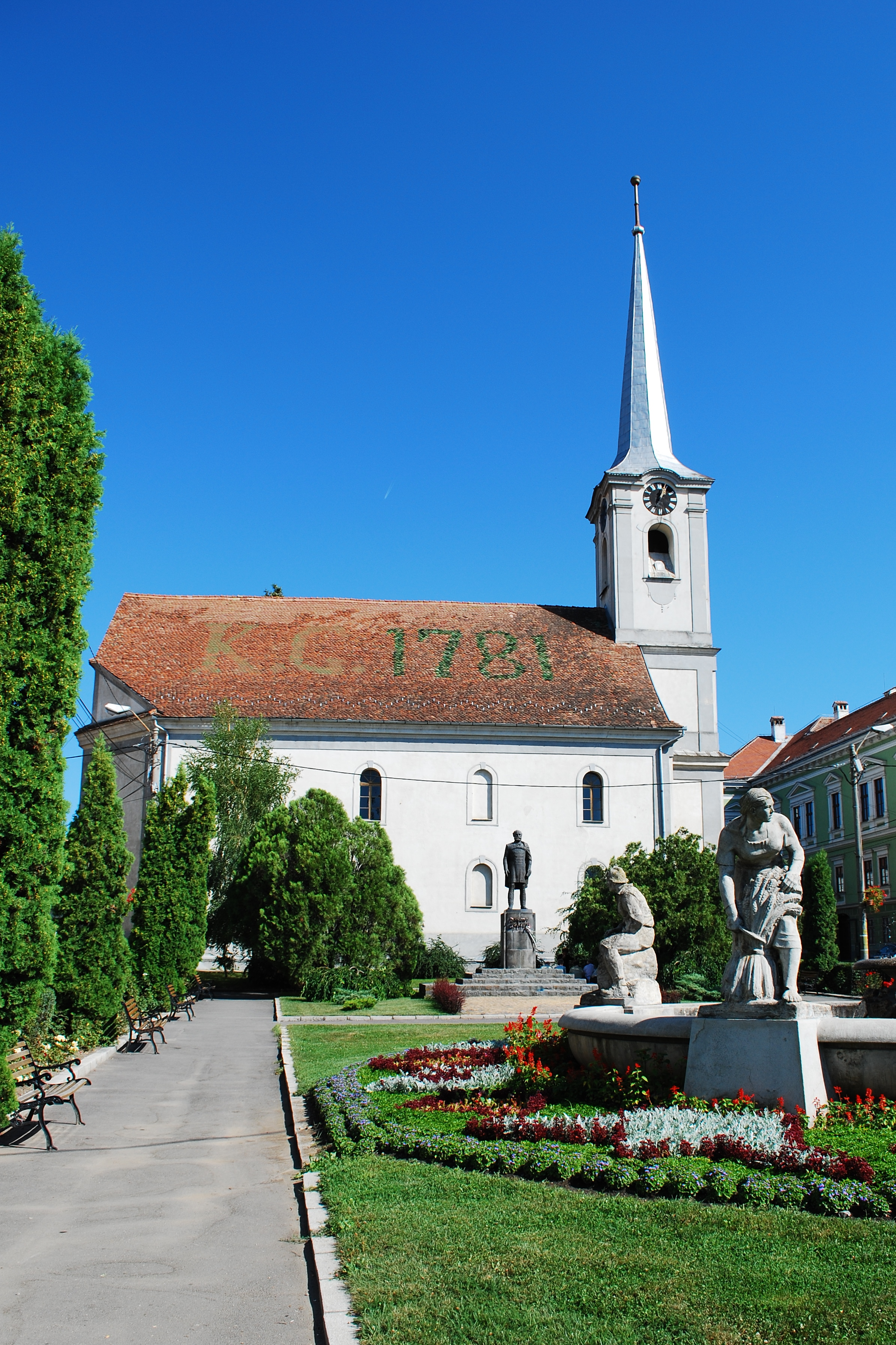 Reformed church in the center of Odorheiu Secuiesc, Romania